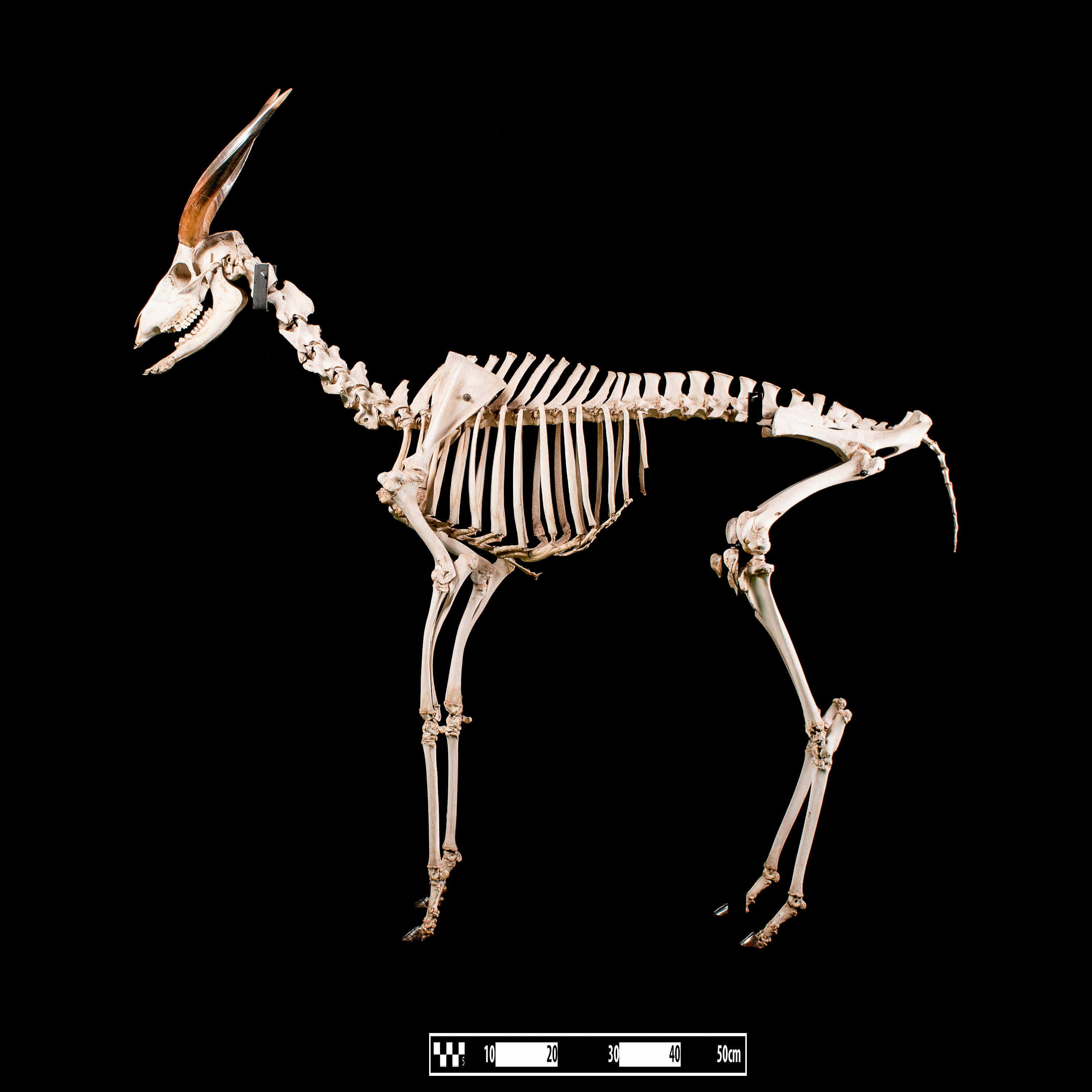 Bongo skeleton. Tragelaphus eurycerus”. Specimen of Bongo skeleton prepared by the bone maceration technique and on display at the Museum of Veterinary Anatomy, FMVZ USP.